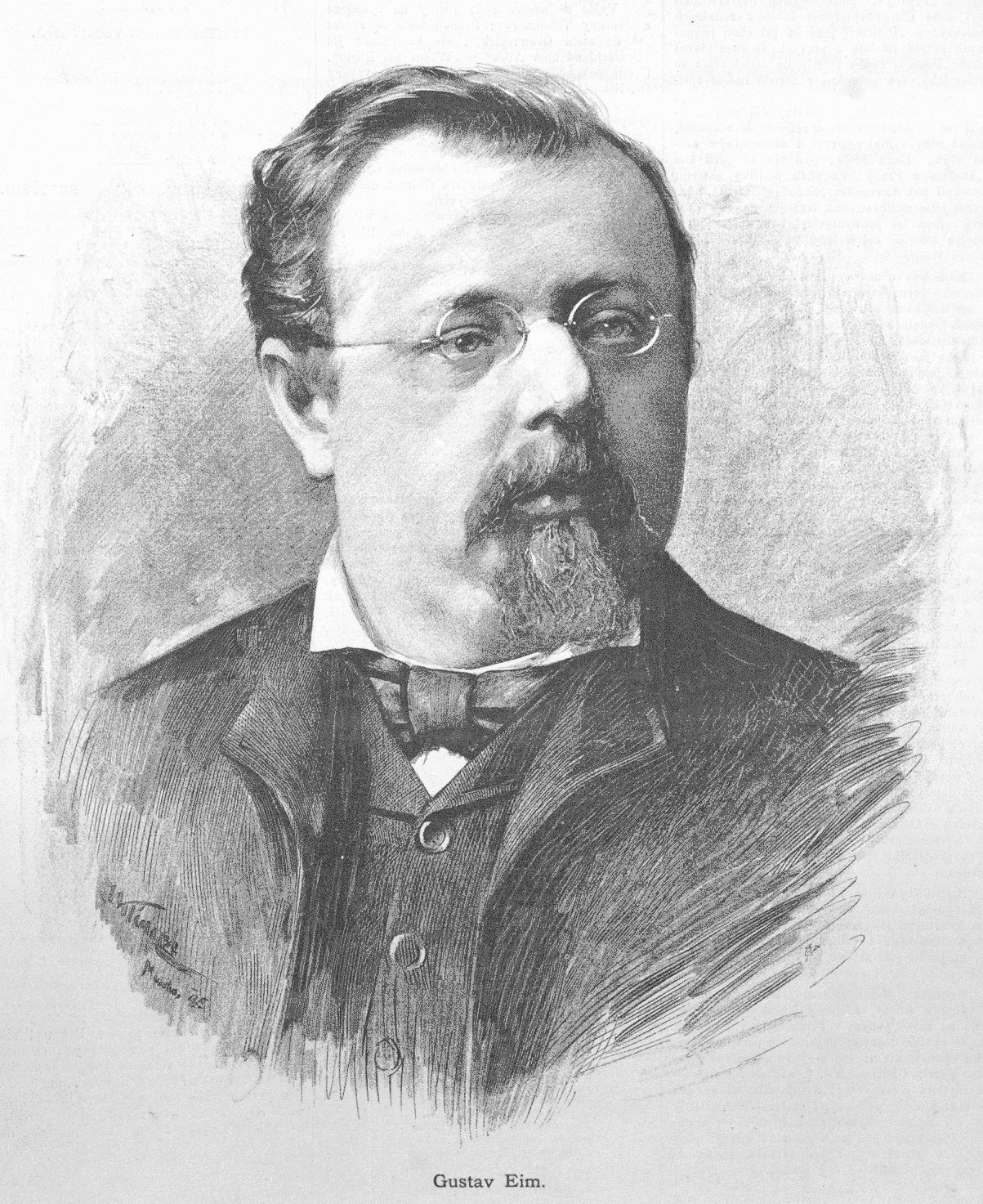 Portrait of Gustav Eim, Czech journalist and politician.